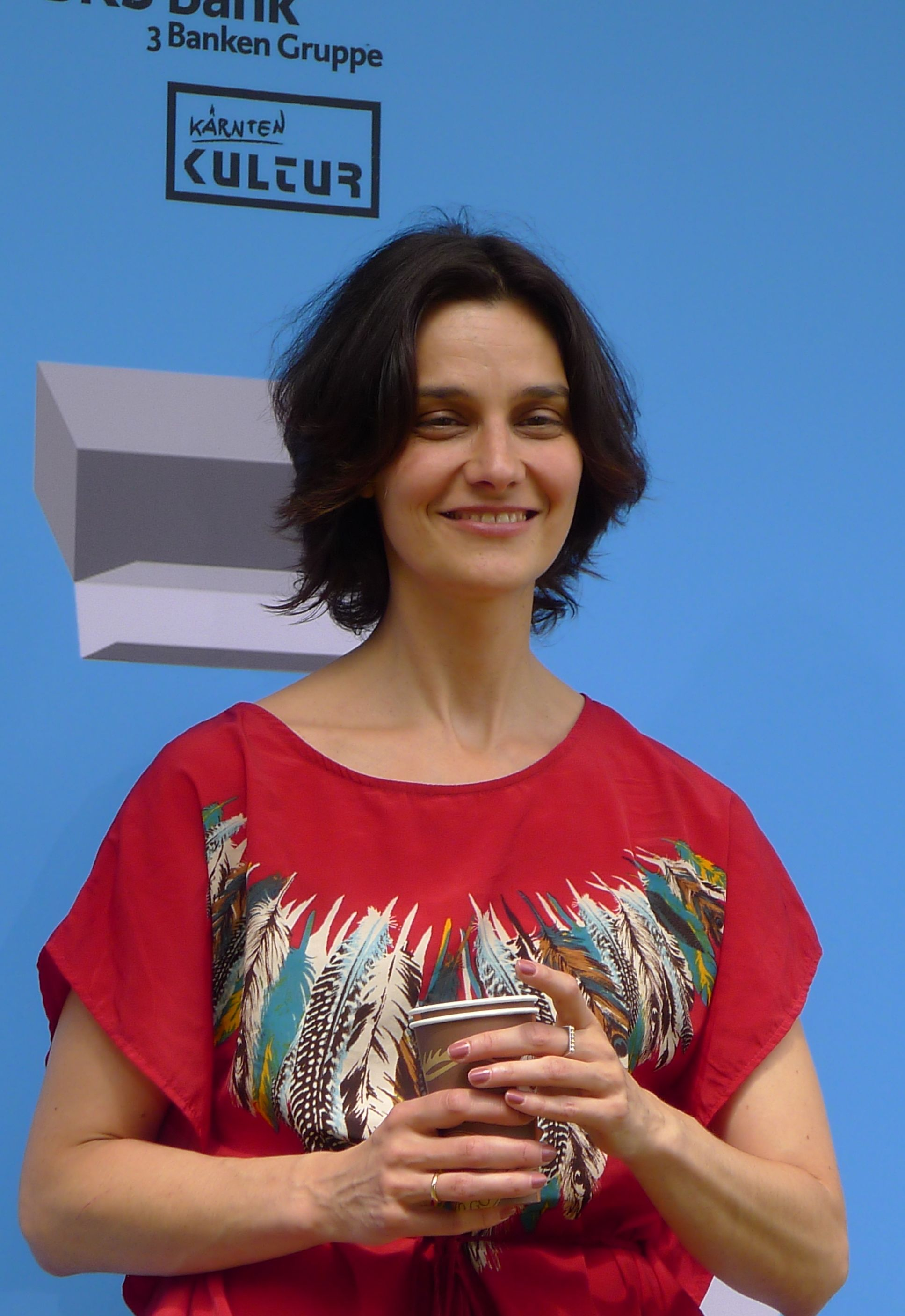 Ukrainian writer Katerina Petrovskaya in Austria, 2013